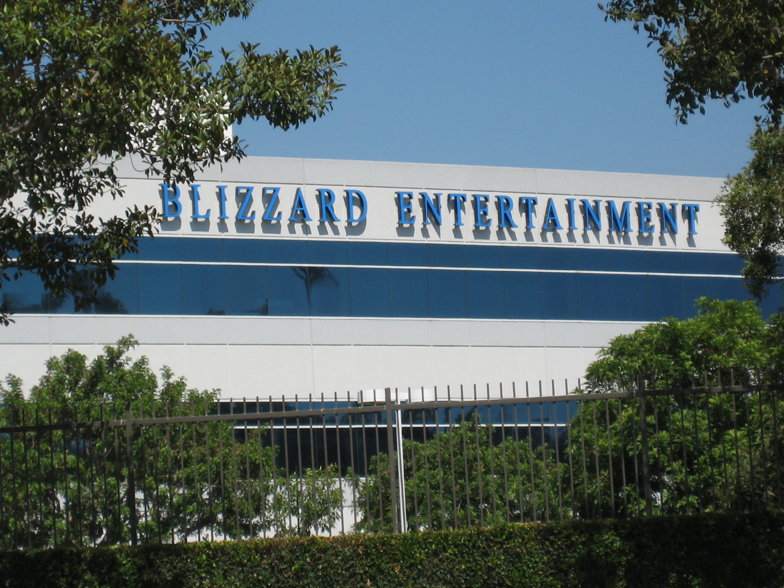 Picture of Blizzard Entertainment building from the outside.